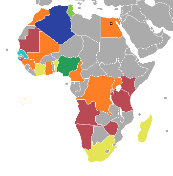 Final results.